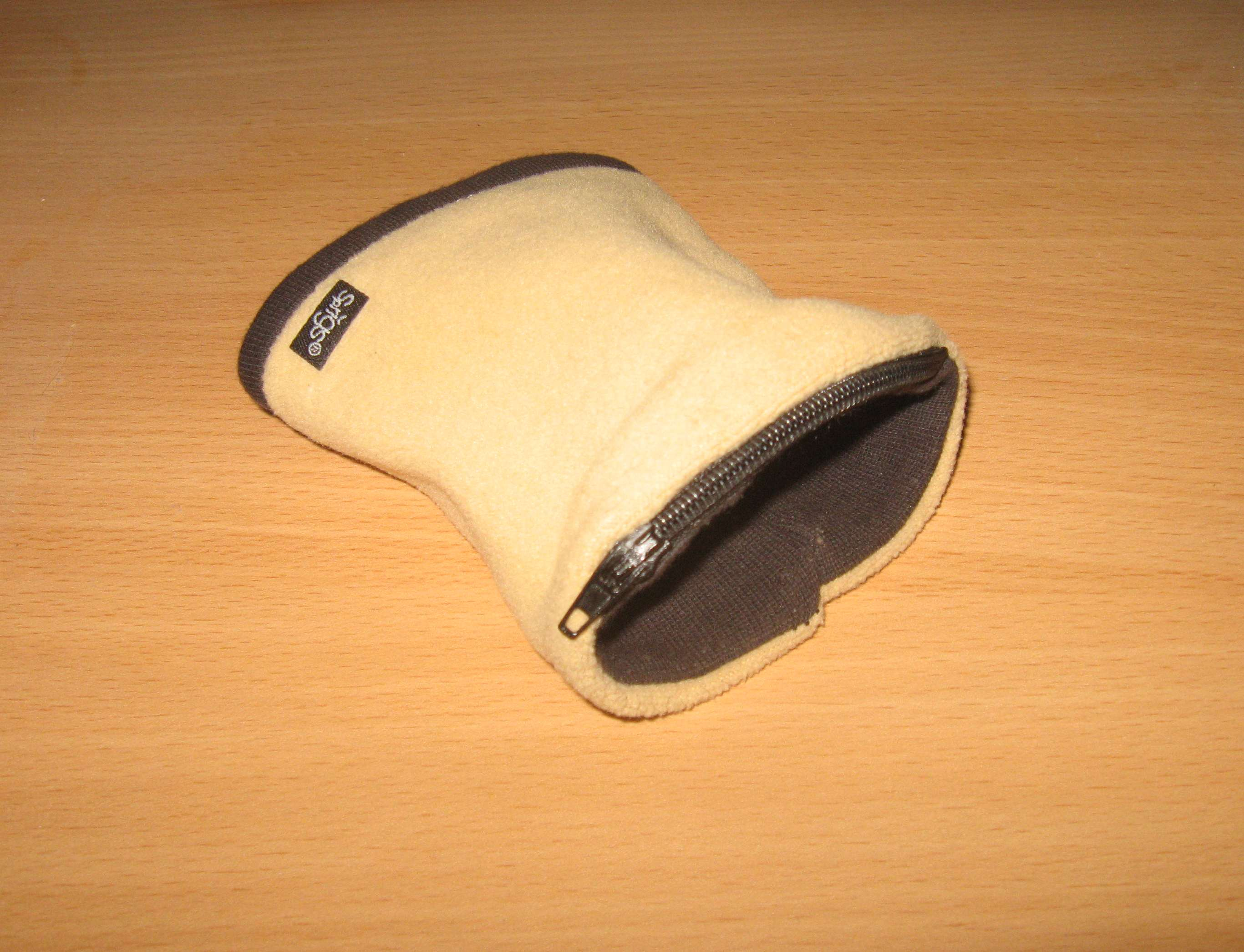 Wrist wallet